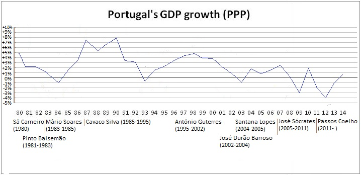 Portugal's gdp growth (PPP) since 1980